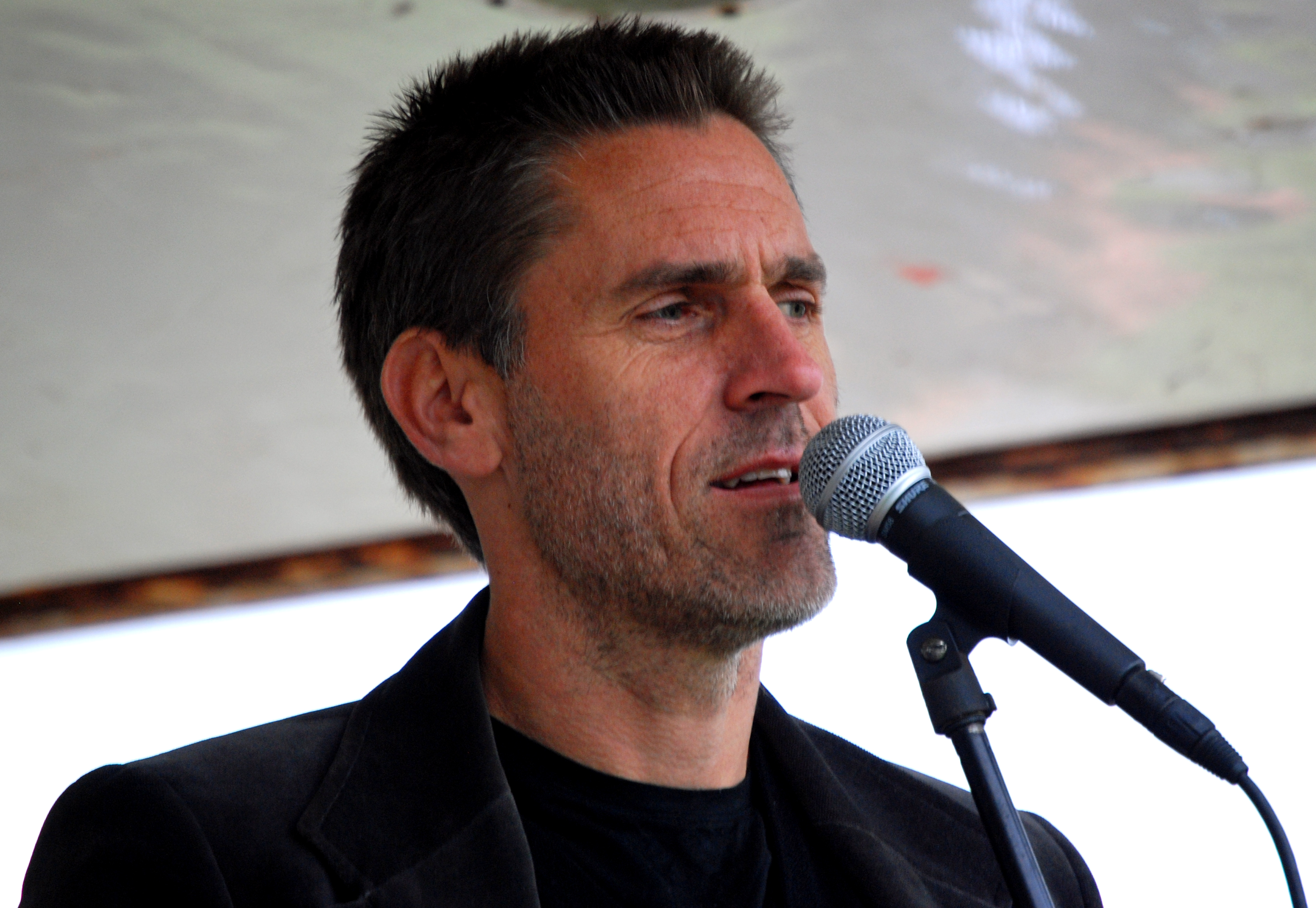 Former footballer Tommy Svindal Larsen speaking in Langesund, Telemark, Norway.